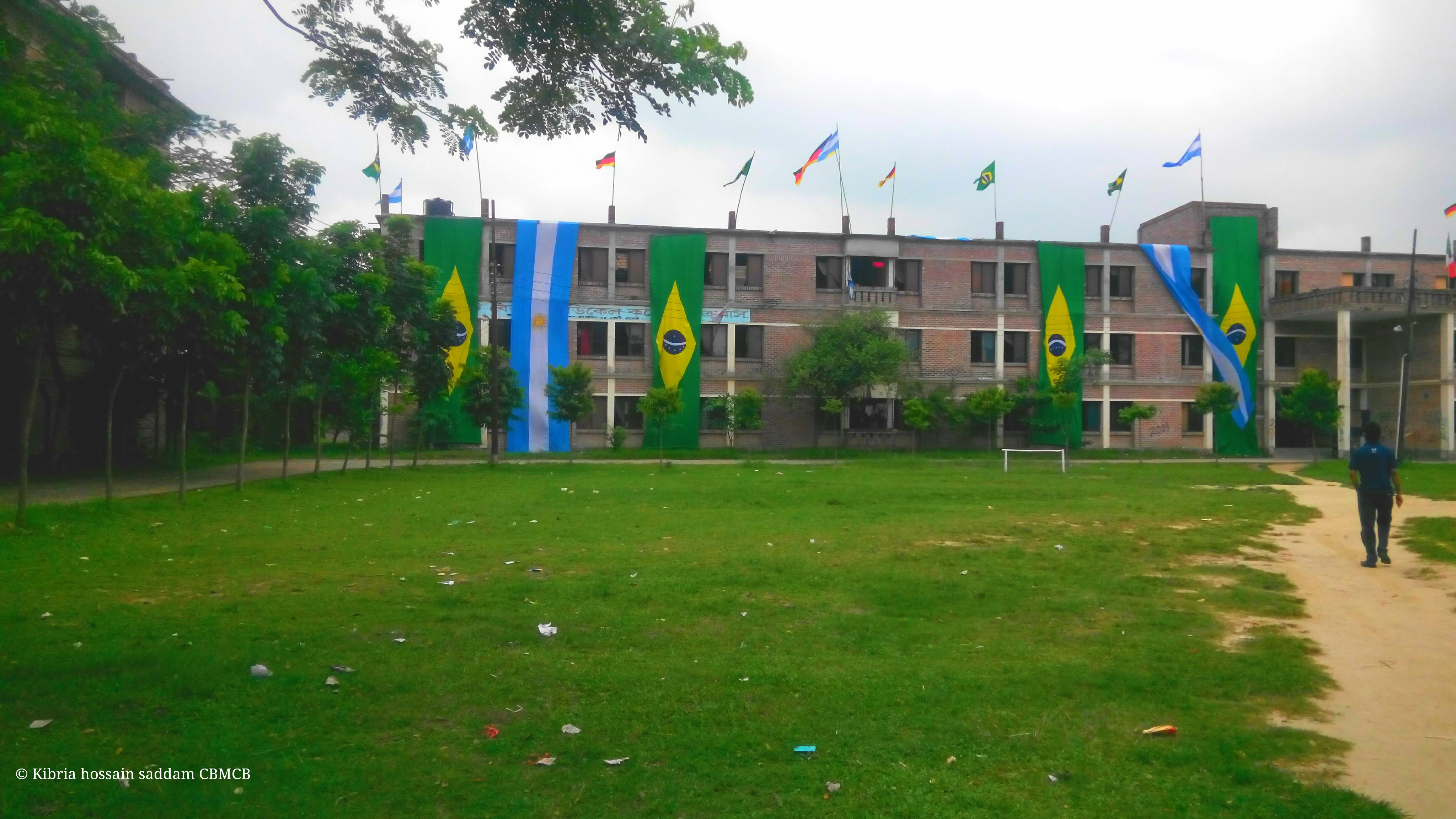 During worldcup football college ground looks like this festive mood all around like whole county